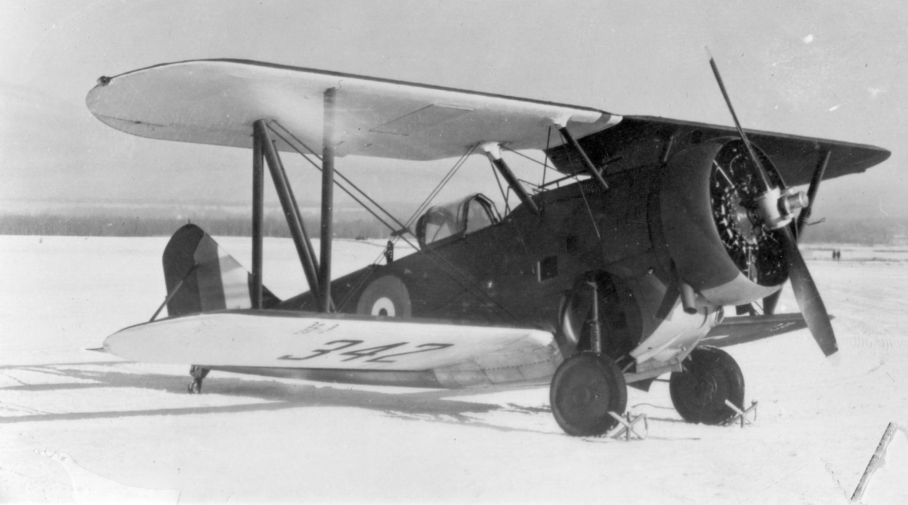 Catalog #: 01_00092195 Title: Canadian Car and Foundry Goblin, RCAF 342 Corporation Name: Canadian Car and Foundry Additional Information: RCAF 342 Tags: Canadian Car and Foundry, Goblin, Goblin Repository: San Diego Air and Space Museum Archive Designation: Goblin From the Collection of Charles M. Daniels